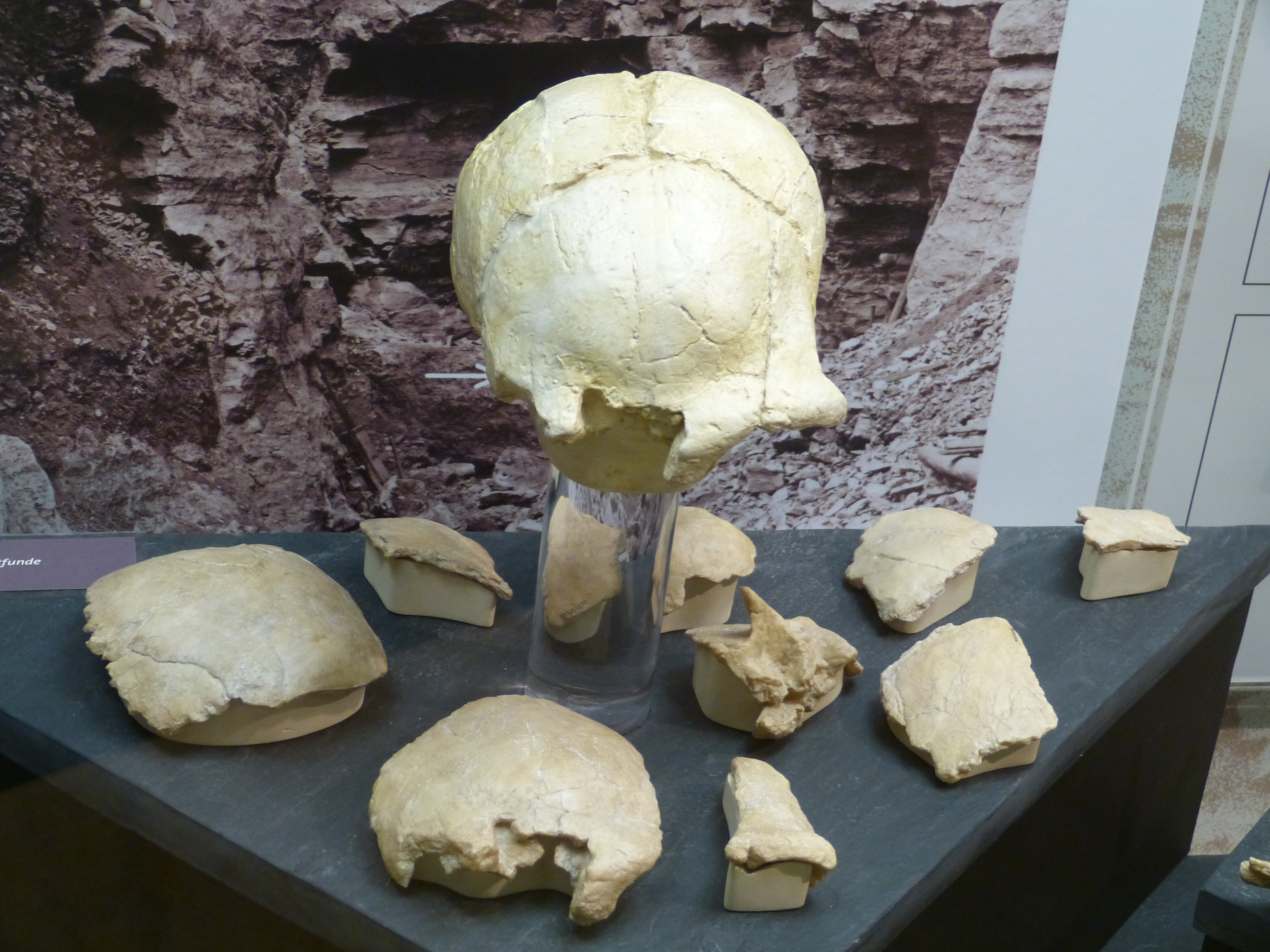 Weimar ( Thuringia ). Museum for Prehistory in Thuringia: Skull and bone remnants of early Homo neanderthalensis,dating back 230.000 years, from Weimar-Ehringsdorf.